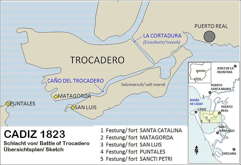 Sketch of the Bay of Cadiz 1823